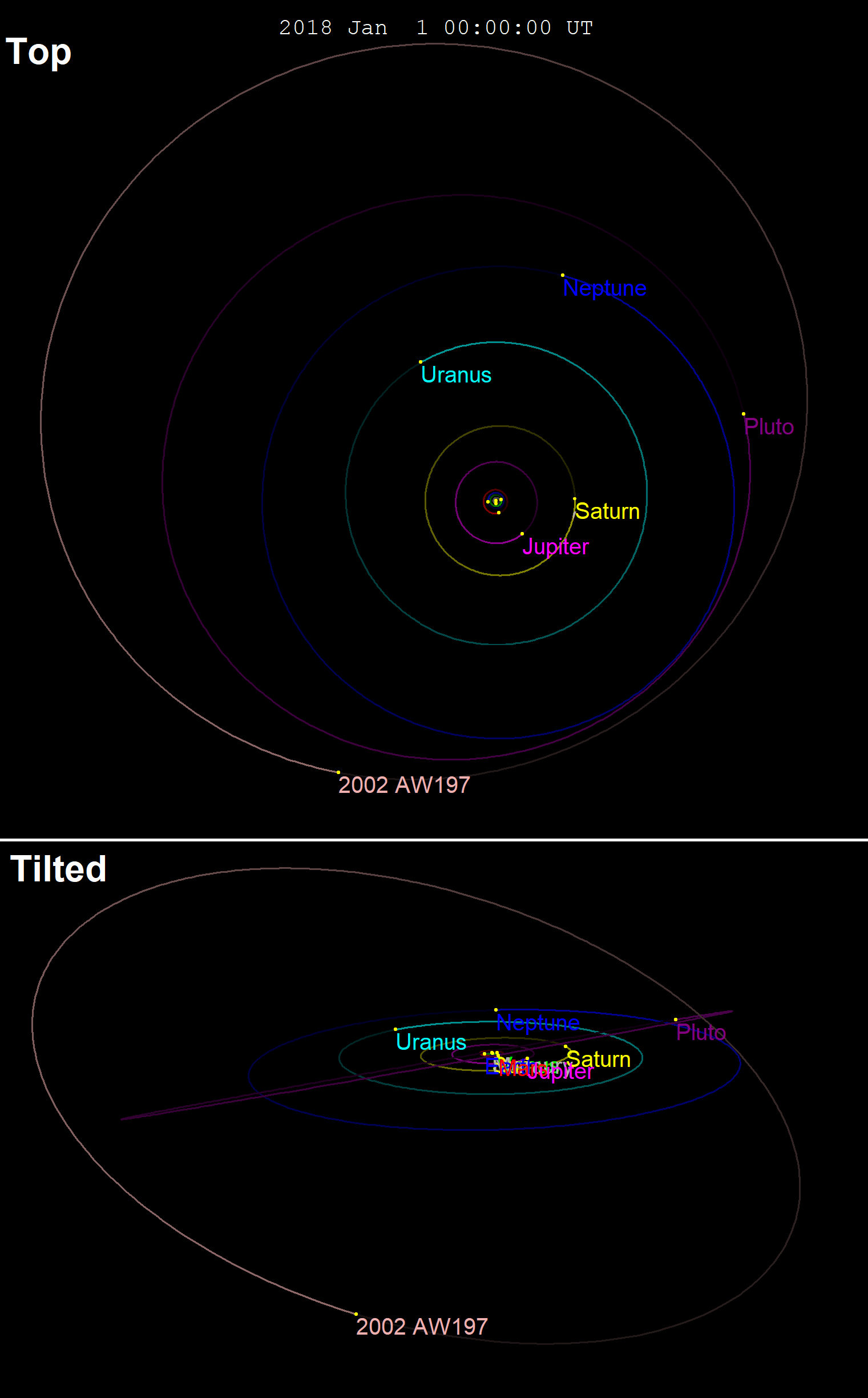 (55565) 2002 AW197 orbit, and position on 1/1/2018